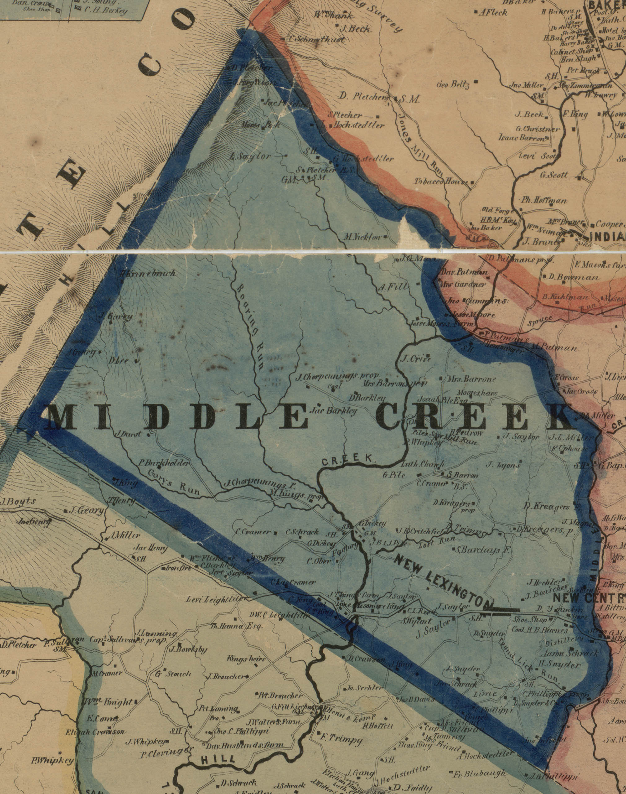 Map of Middlecreek Township taken from 1860 Edward L. Walker map of Somerset County, Pennsylvania, available at the Library of Congress website